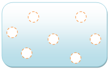 The space between gas molecules are very big. Gas molecules have very weak or no bonds at all. The molecules in "gas" can move freely and fast. "Gas" is recognized as a "fluid".